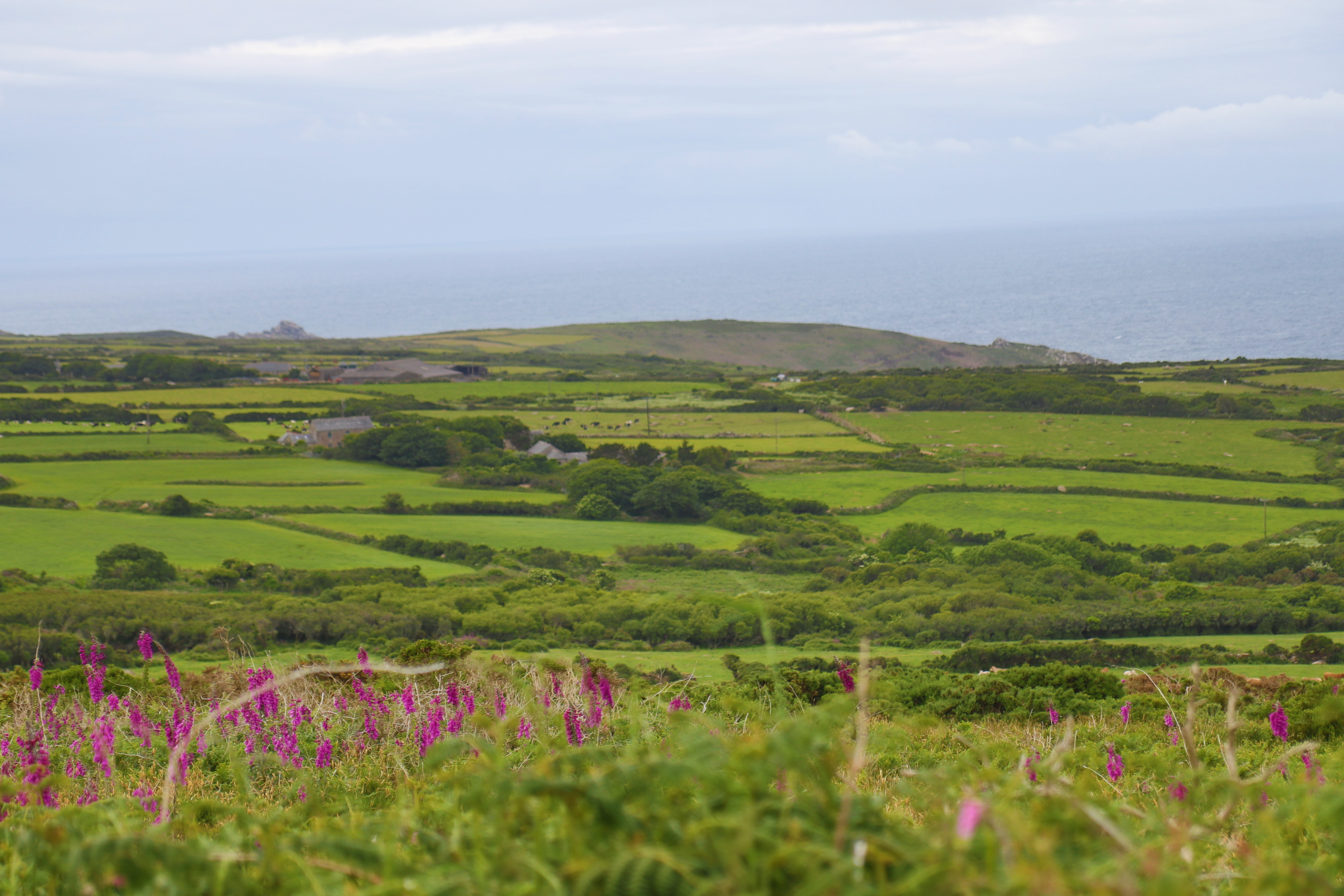 B3306 North Coast Road in West Penwith This photo was taken by Tom Corser and is © Tom Corser 2020. This photo may be reproduced under the terms of the Creative Commons Attribution-ShareAlike 3.0 Unported Licence [1] (unless otherwise stated). Please credit this photo Tom Corser If using this photo, make sure you properly credit and specify the licence that this photo is licensed under. (E.g. "Photo by Tom Corser Licensed under Creative Commons Attribution-ShareAlike 3.0 Unported Licence: If you would like to use this photo under a different license, please contact me via or . Attribution: Tom Corser